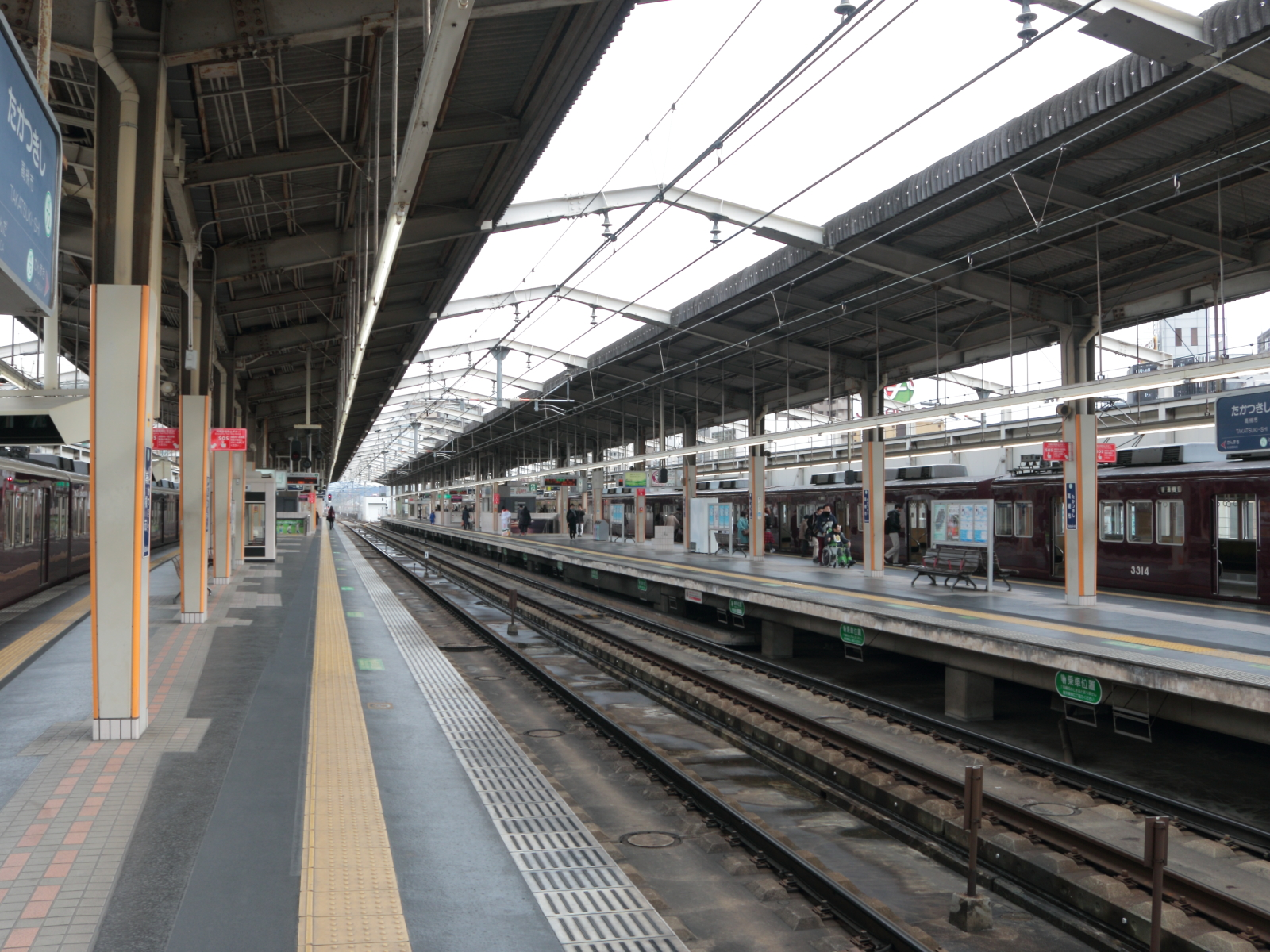 Platform from Takatsuki-shi Station.